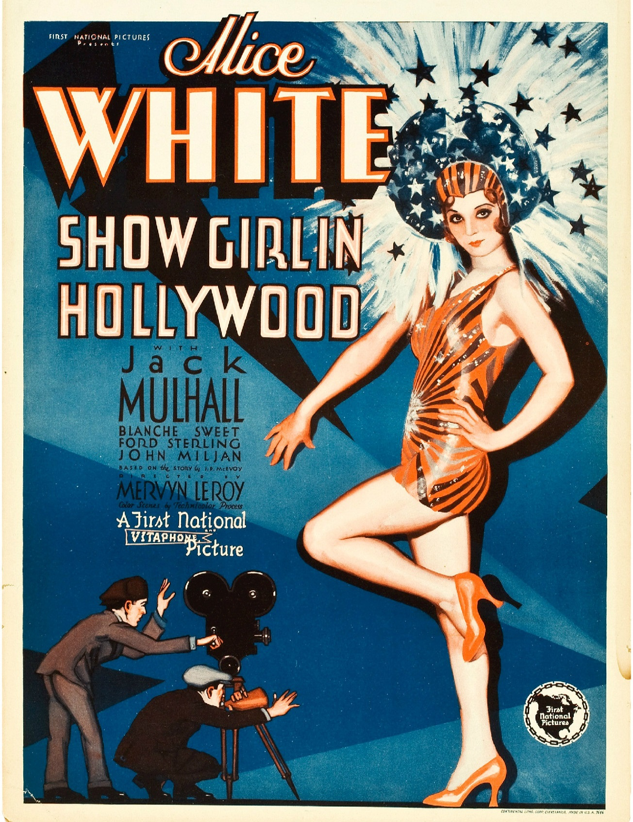 Window poster from the 1930 film Showgirl in Hollywood.